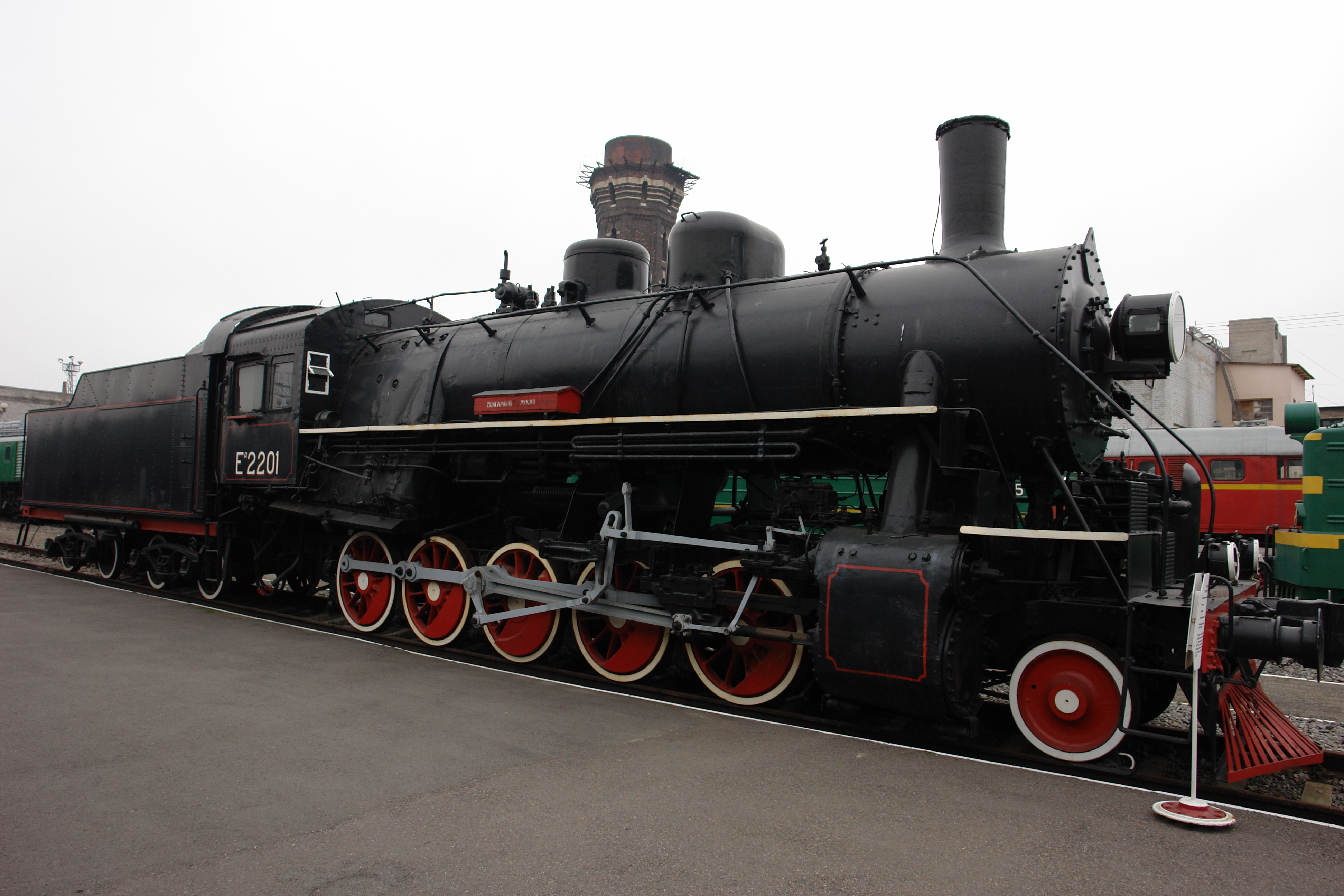 Freight steam locomotive YeA 2201 Weight in working order:excluding tender100t.including tender170 t.Design speed70 kphMaximum power at wheel rim2200 hp YeA 2201 was built by Baldwin in 1944 for the USSR under the Lend-Lease scheme. From 1944 it was operated at the TsNII NKPS test track at Shcherbinka near Moscow, and worked on the Far Eastern Railway from 1955.